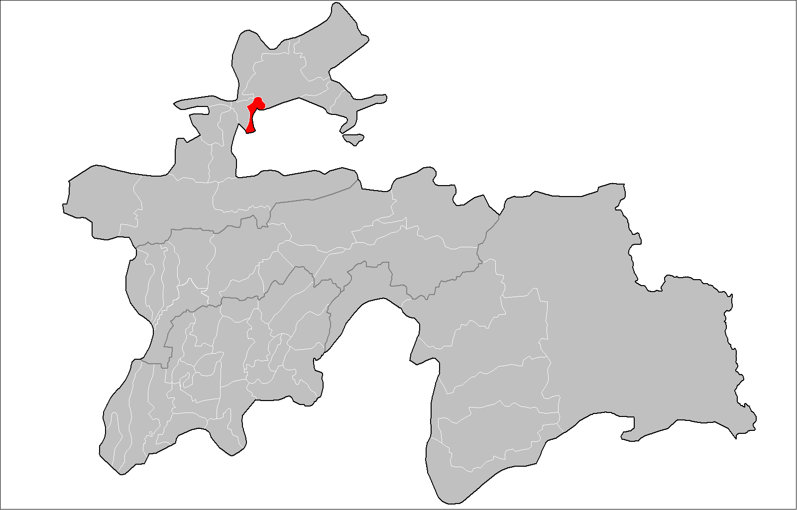 Location of Jabbor Rasulov District in Tajikistan